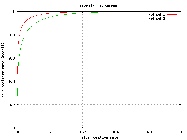 For comparison with the DET curves, the same two classifier methods compared. The region of interest is a very narrow sliver along the y-axis and the top left corner.